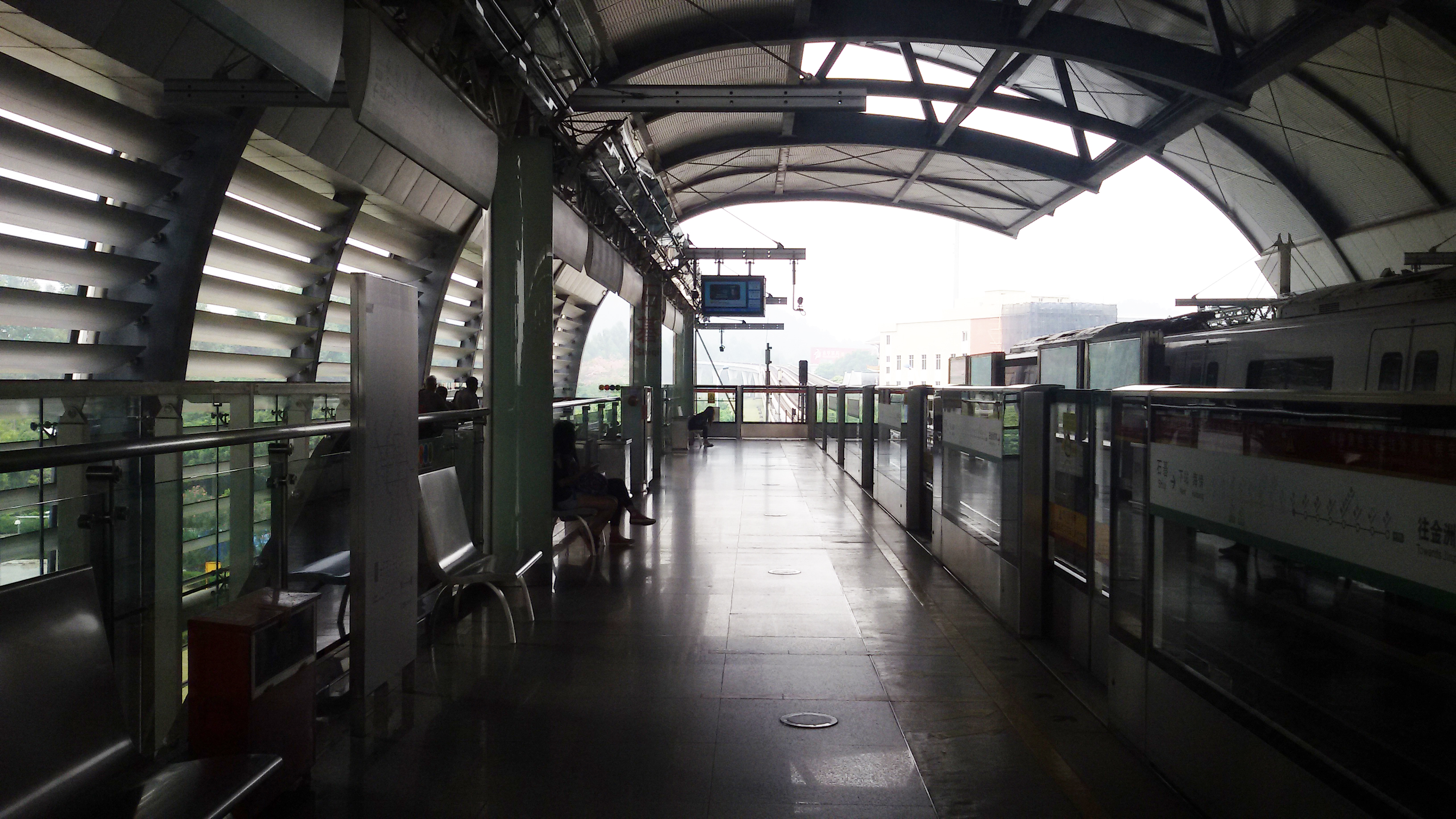 廣州地鐵，石碁站嘅月台。